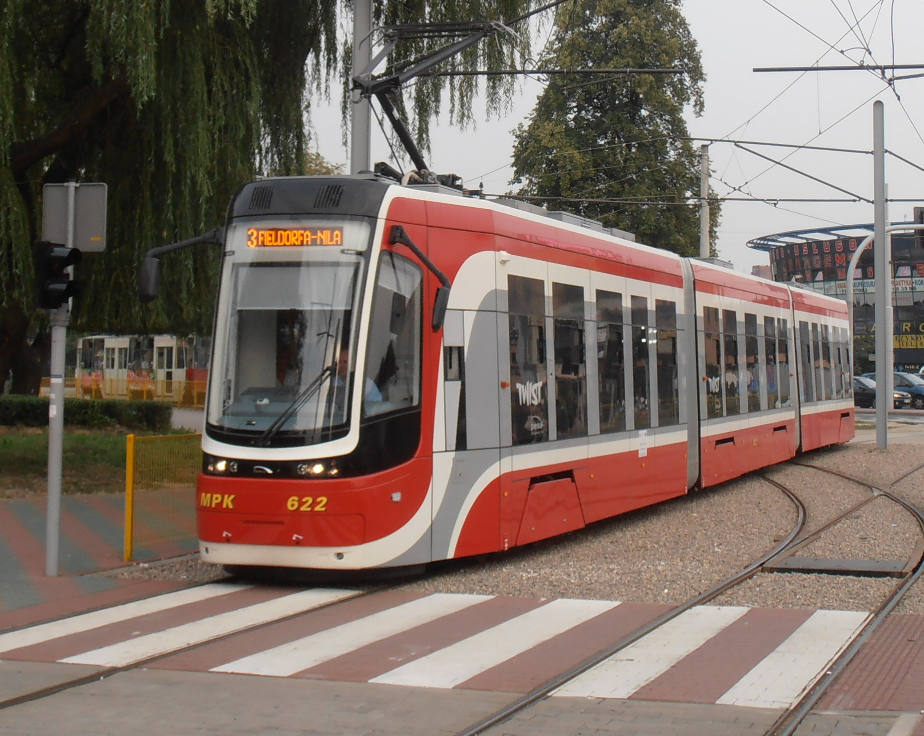 Twist on Niepodległości Avenue, line '3'